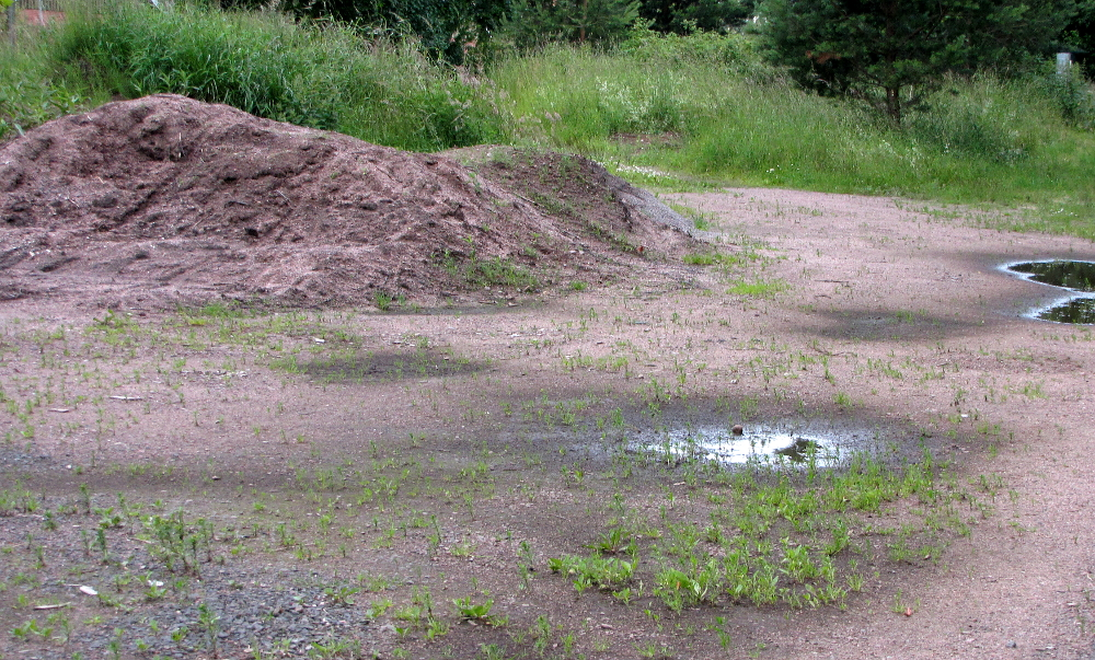 Ruderal area